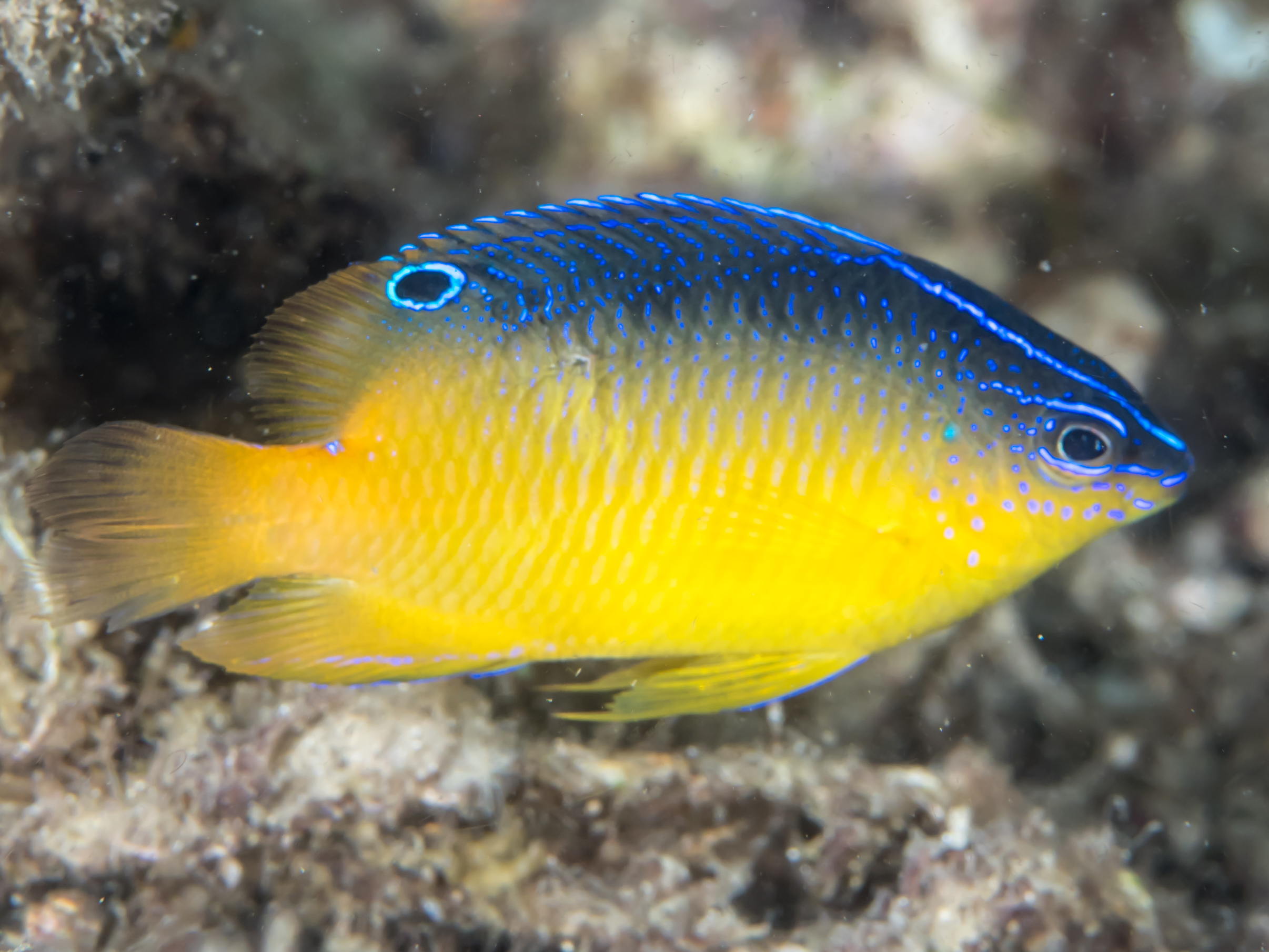 Lembeh, Indonesia - Miller's damselfish (Pomacentrus milleri)